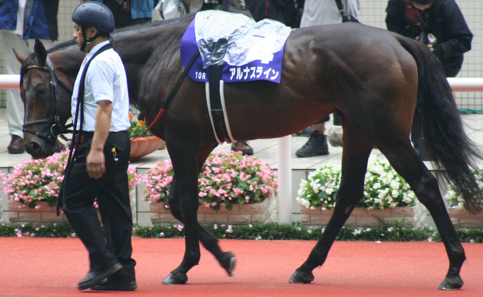 Al Nasrain (horse, Hanshin Racecourse)